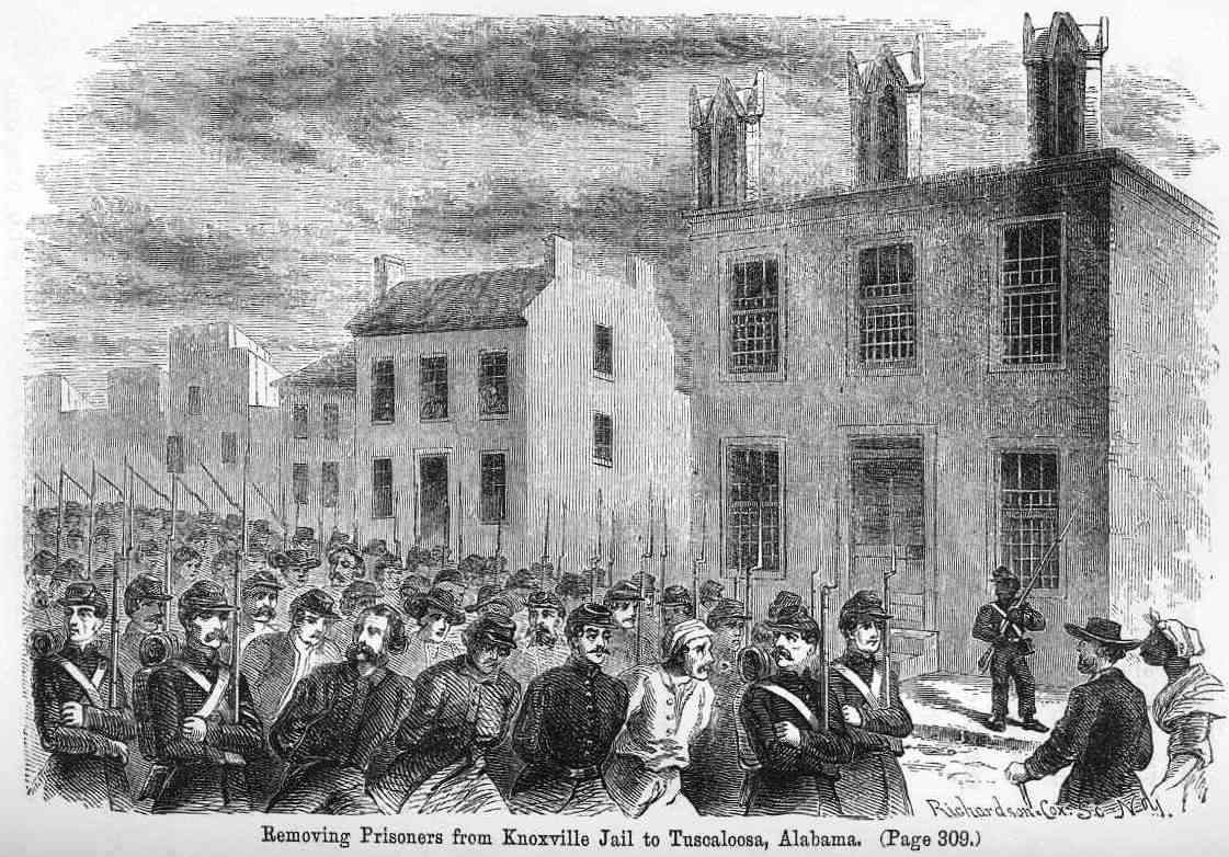 Confederate soldiers marching Union supporters through the streets of Knoxville, Tennessee, USA, on December 7, 1861 at the outbreak of the U.S. Civil War (1861–1865). The prisoners were being moved from the Knoxville Jail to a prison for political prisoners in Tuscaloosa, Alabama. This engraving appeared in William "Parson" Brownlow's book, Sketches of the Rise, Progress, and Decline of Secession. Brownlow had been confined with the prisoners before their removal.